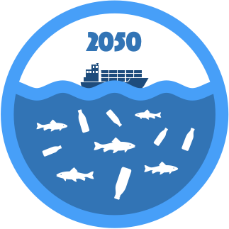 This infographic shows that there will (predicted) be more plastic in the oceans than fish by 2050.